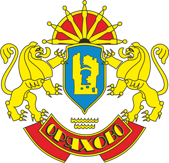 Emblem of Oryahovo Municipality, Bulgaria